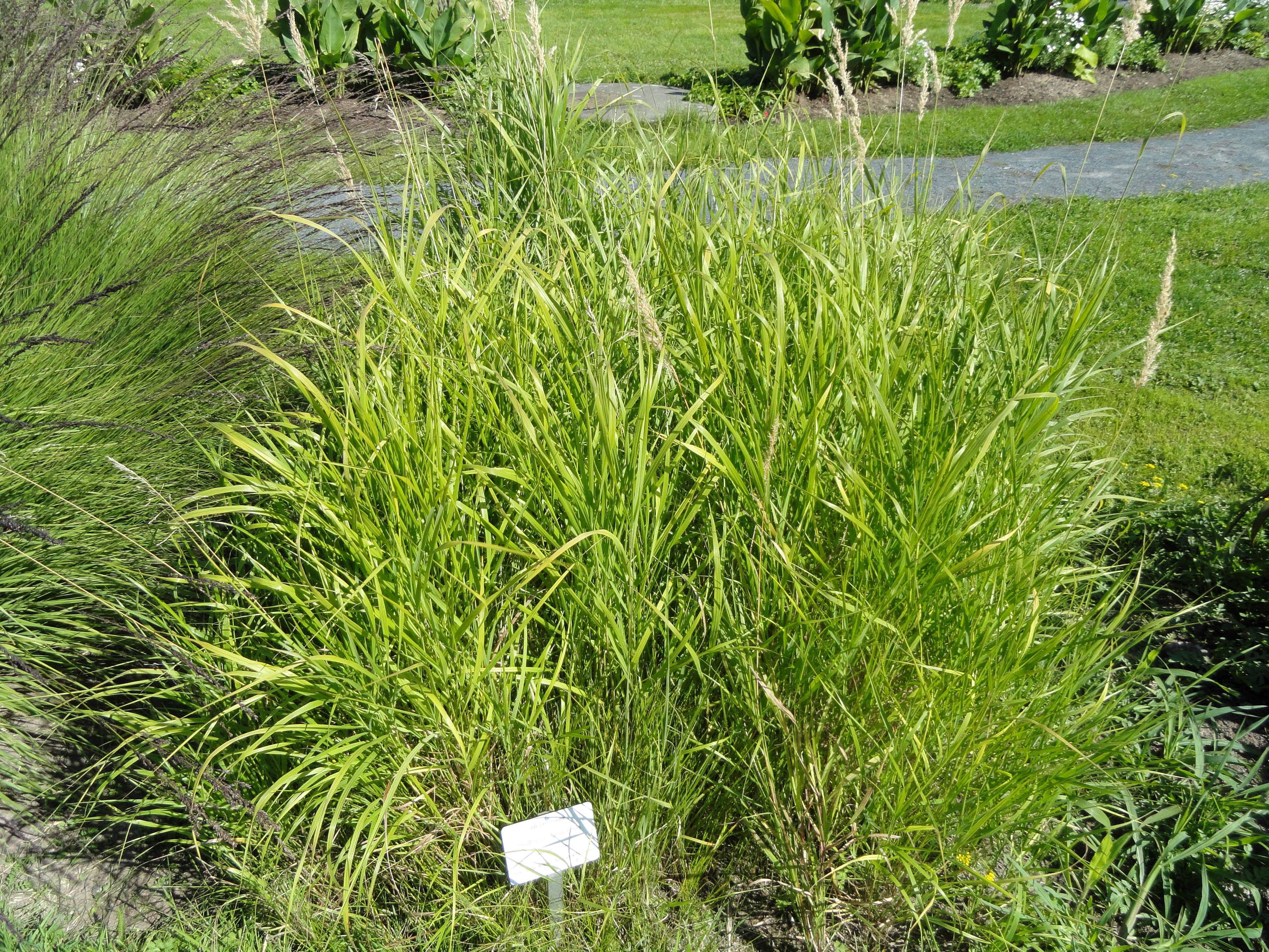 Botanical specimen. The University of Helsinki Botanical Garden at Kaisaniemi